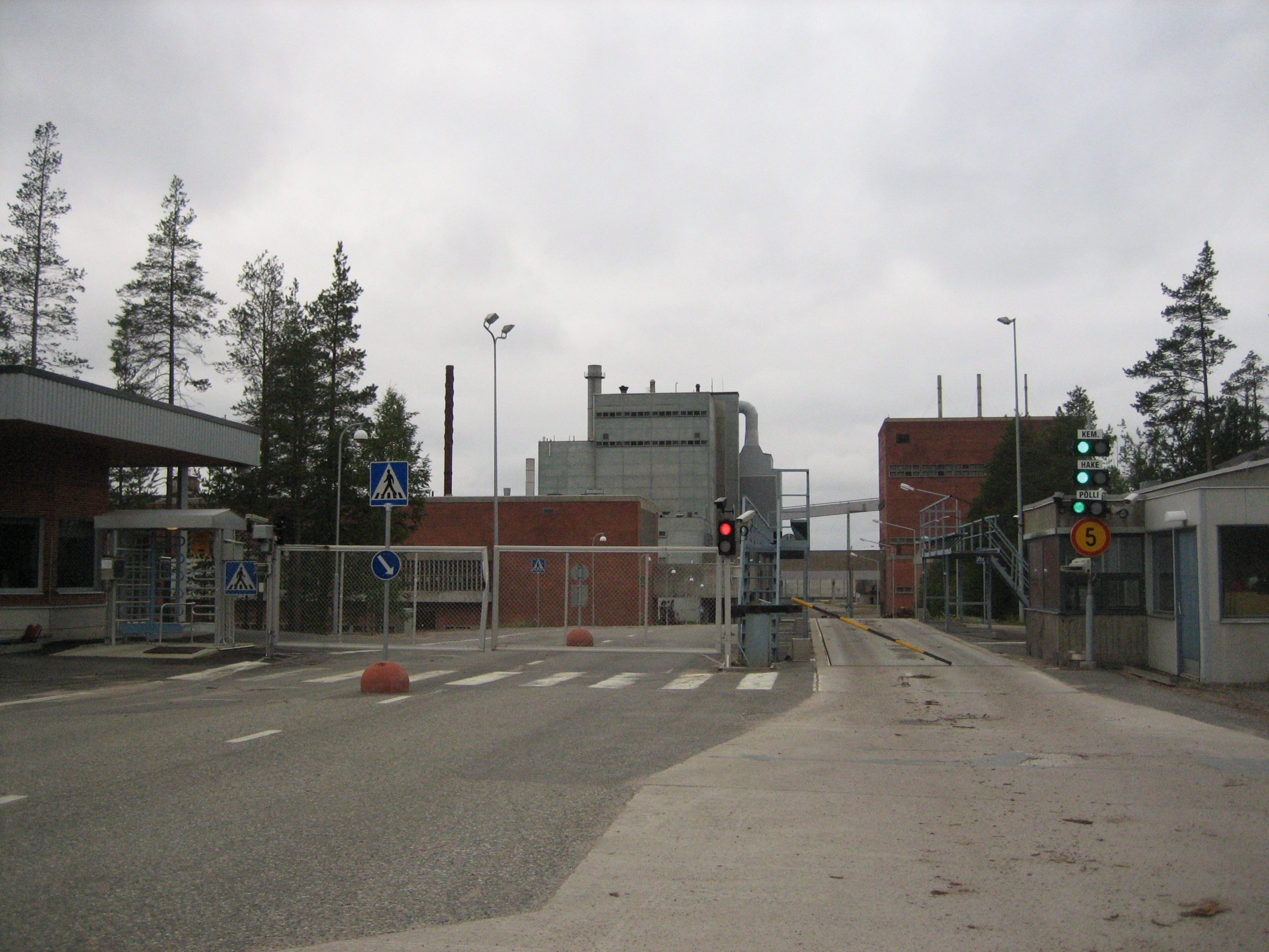 The main gate of Kemijärvi pulp mill of StoraEnso after the closing of the factory.